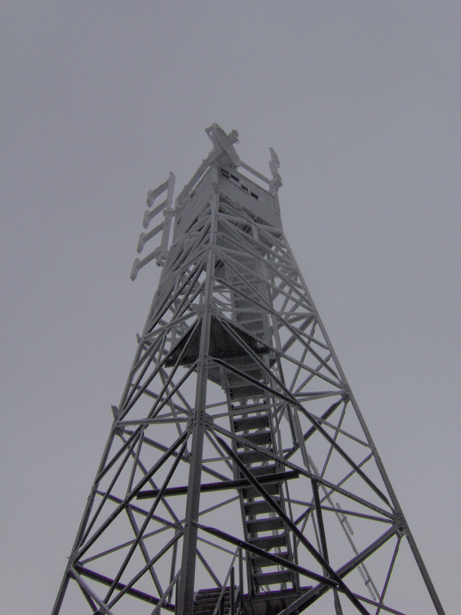 Firetower at the 5,842-ft (1,781m) summit of Mount Sterling in the Great Smoky Mountains National Park of Haywood County, North Carolina, USA.